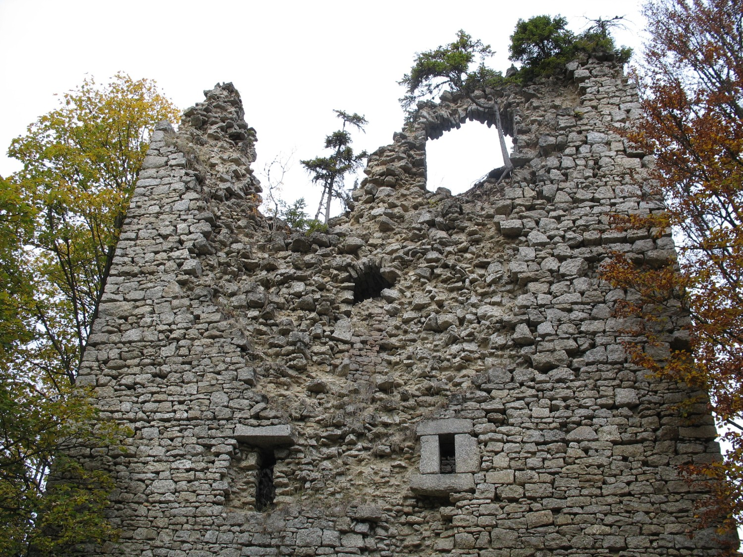 Ruin of Kunžvart Castle near Strážný, Prachatice District, Czech Republic.